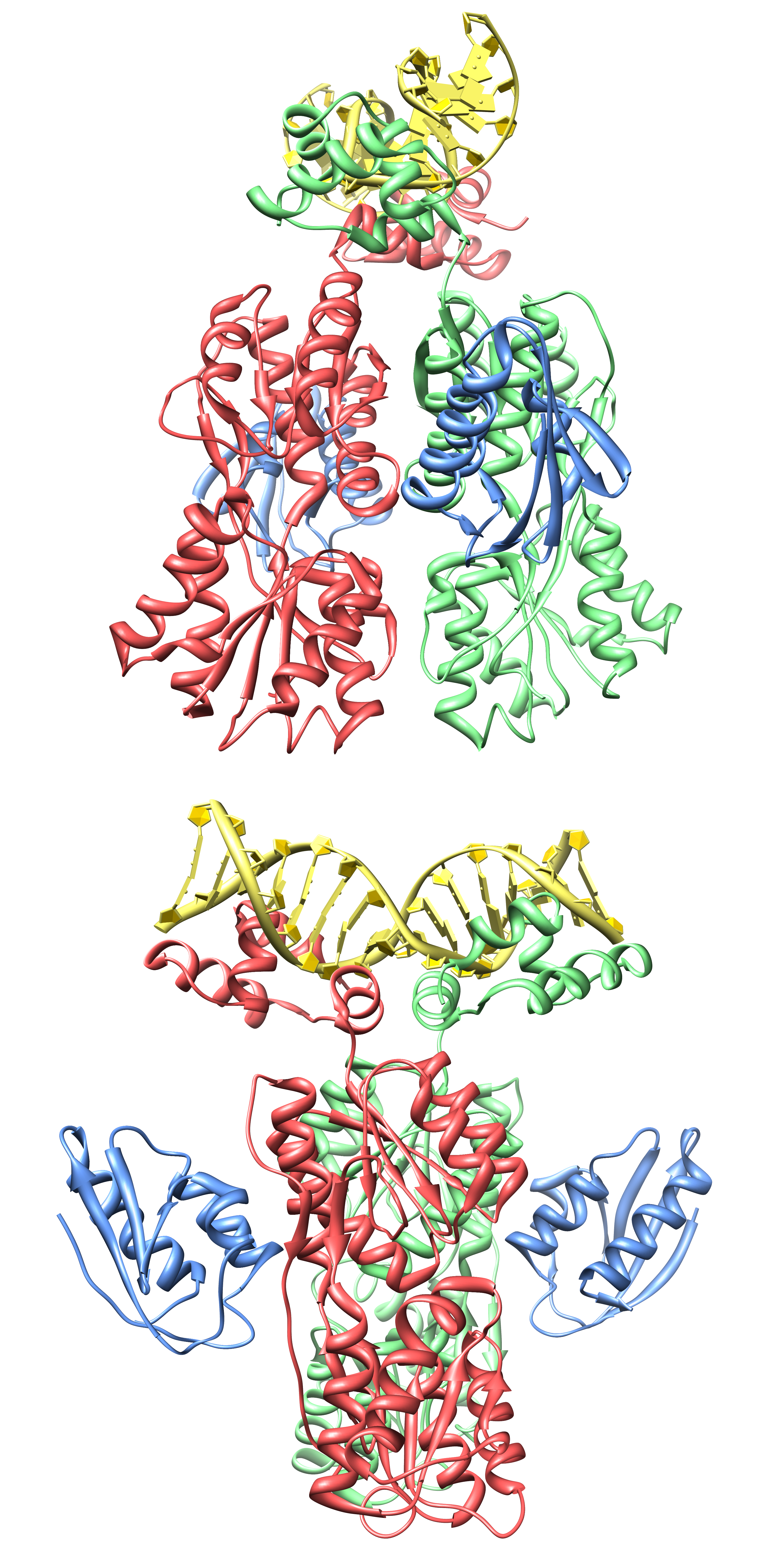 Structure of CcpA from Bacillus megaterium in complex with co-regulator Hpr-Ser46 and operator DNA. Molecular graphics created with Chimera. Based on PDB 1rzr of Schumacher and Brennan, et al.